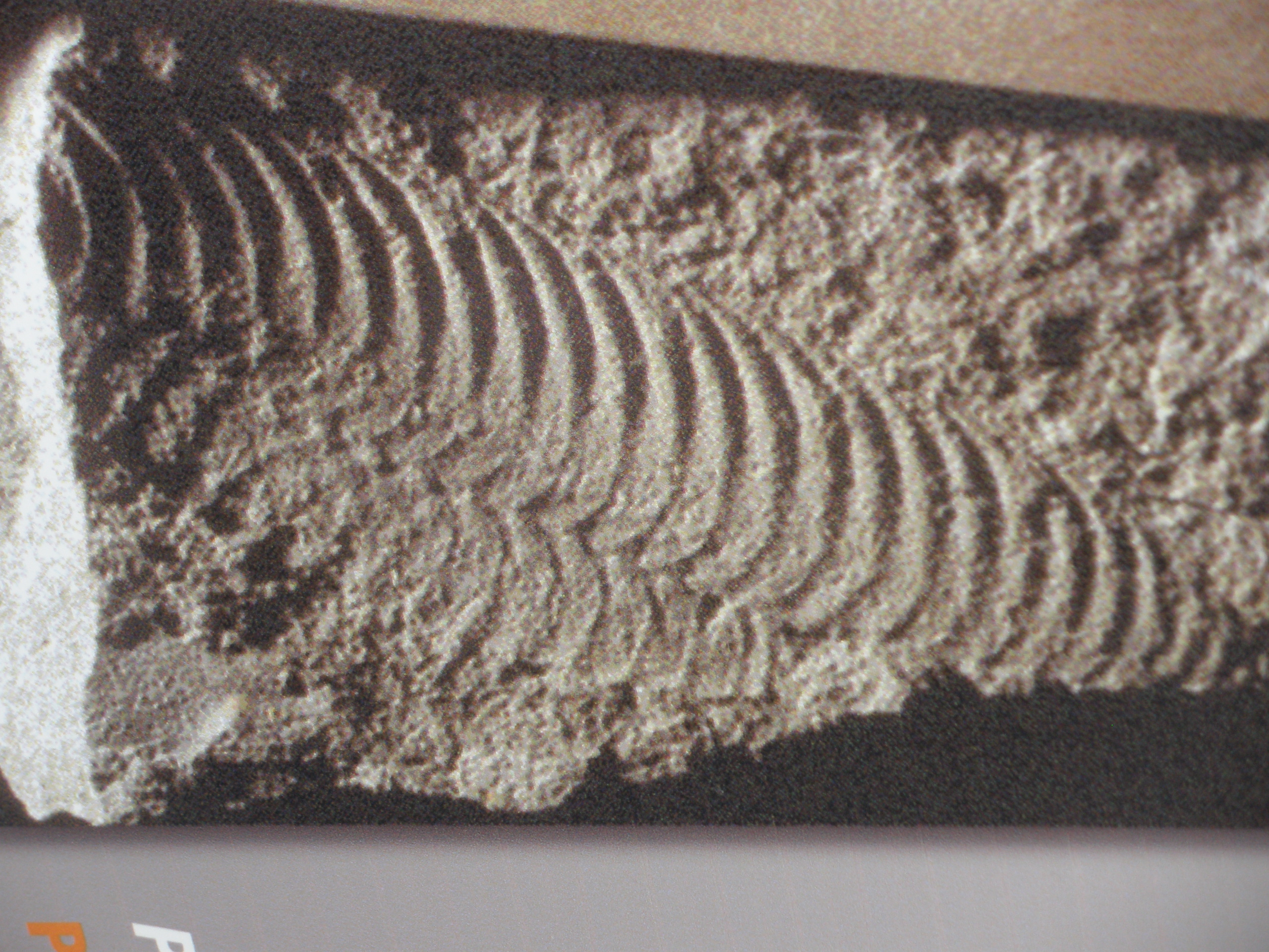 fossil of Pteridinium, a vendozoan